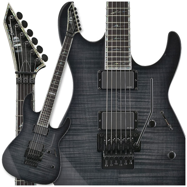 Photo Guitar ESP LTD M-1000